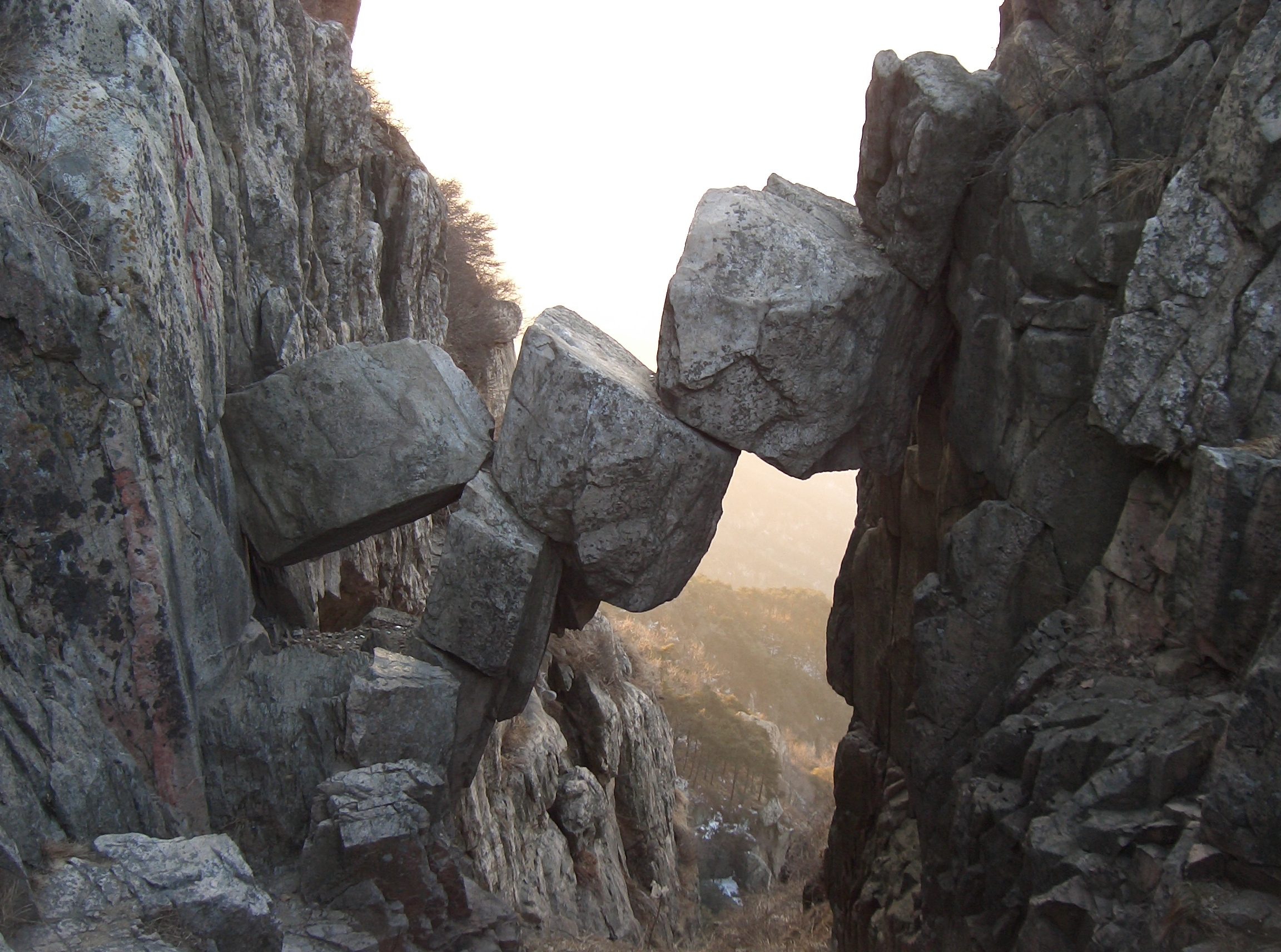 This rock formation on Mt Tai, Shandong province, China is known as the "immortal bridge".